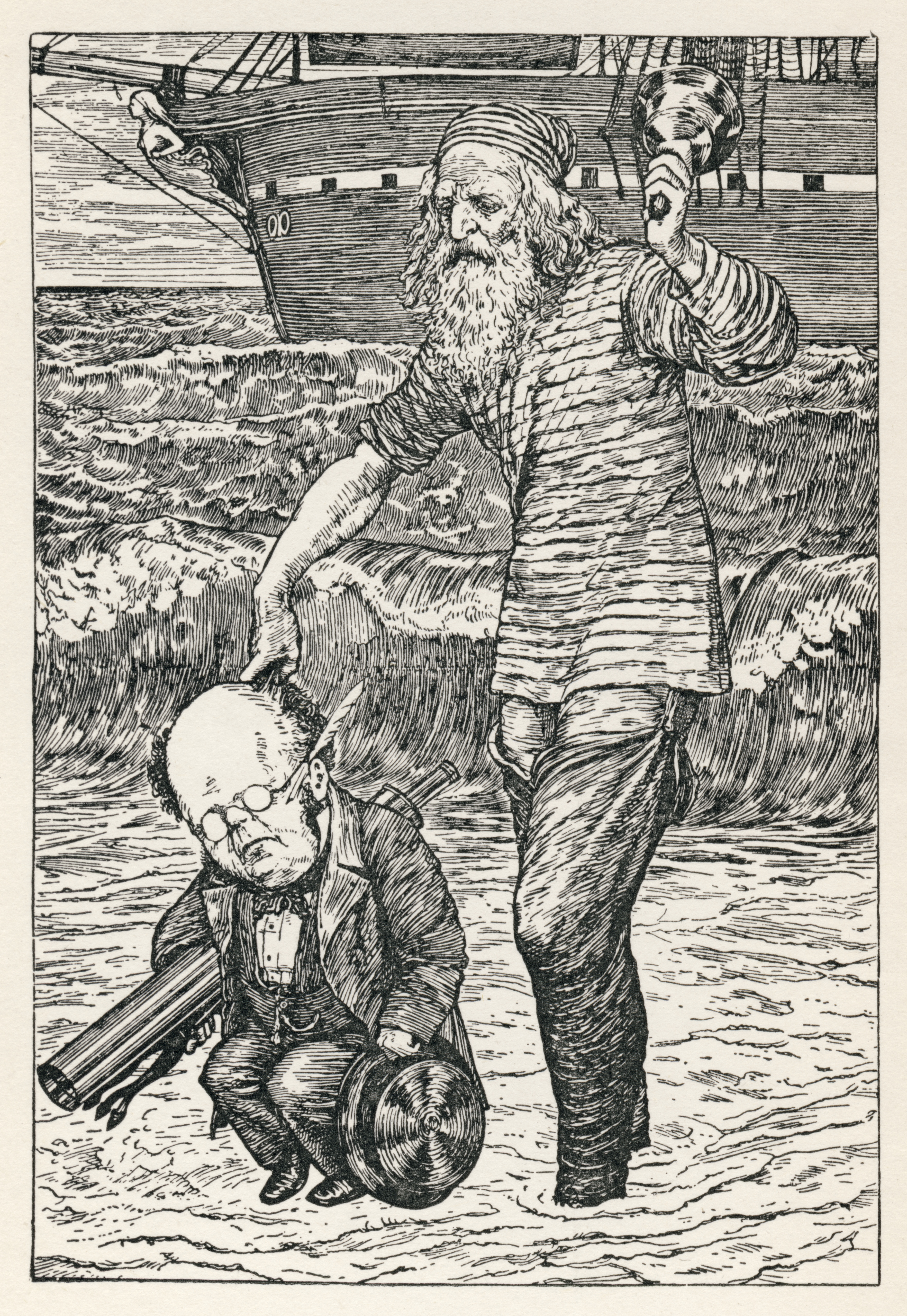 First of Henry Holiday's original ilustrations to "The Hunting of the Snark" by Lewis Carroll. This illustrates the opening of Fit the First: The Landing. "Just the place for a Snark!" the Bellman cried, As he landed his crew with care; Supporting each man on the top of the tide By a finger entwined in his hair.